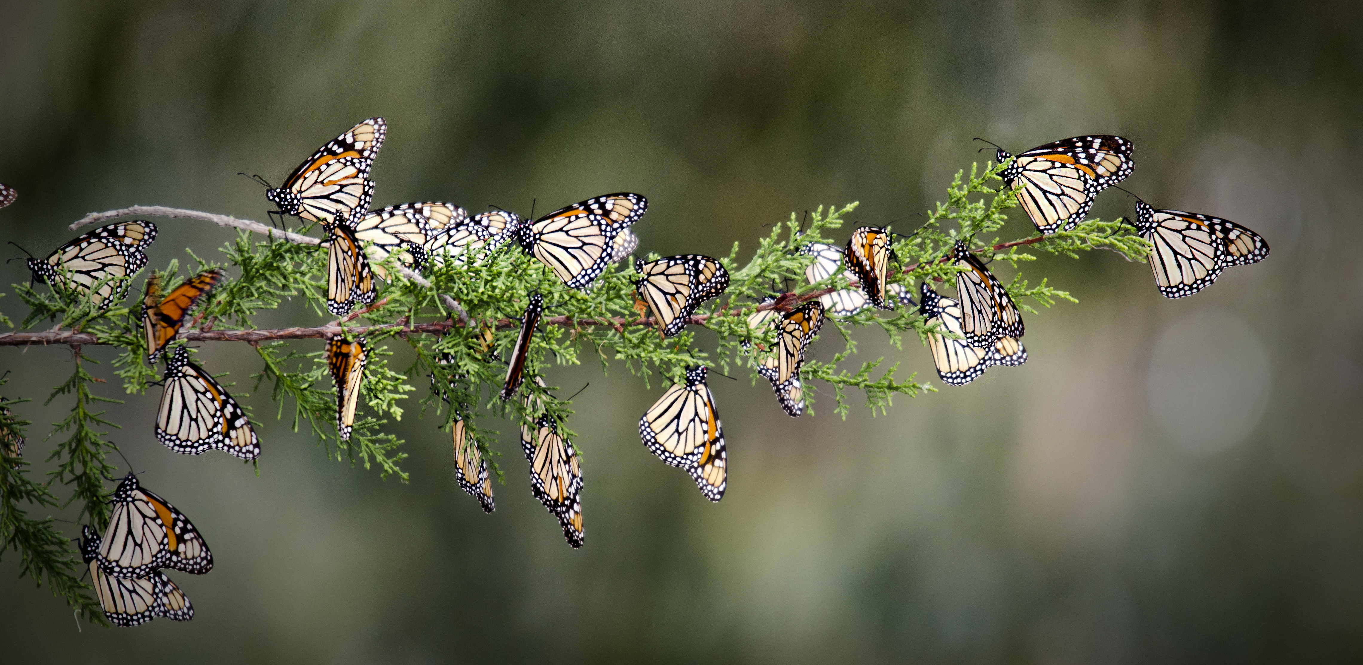 These Monarch's were a long distance and in the dark, so I used a Better Beamer strobe adaption and my 400 mm lens. Also used a tripod and a zoomed in live view to manually focus and then a 2 second shutter delay to stabilize the camera / flash apparatus prior to shutter release. Thanks for your visit.